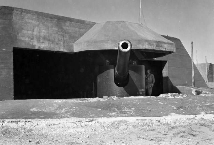 BL 6-inch Mk VII gun at Fort Nepean, Victoria, Australia.